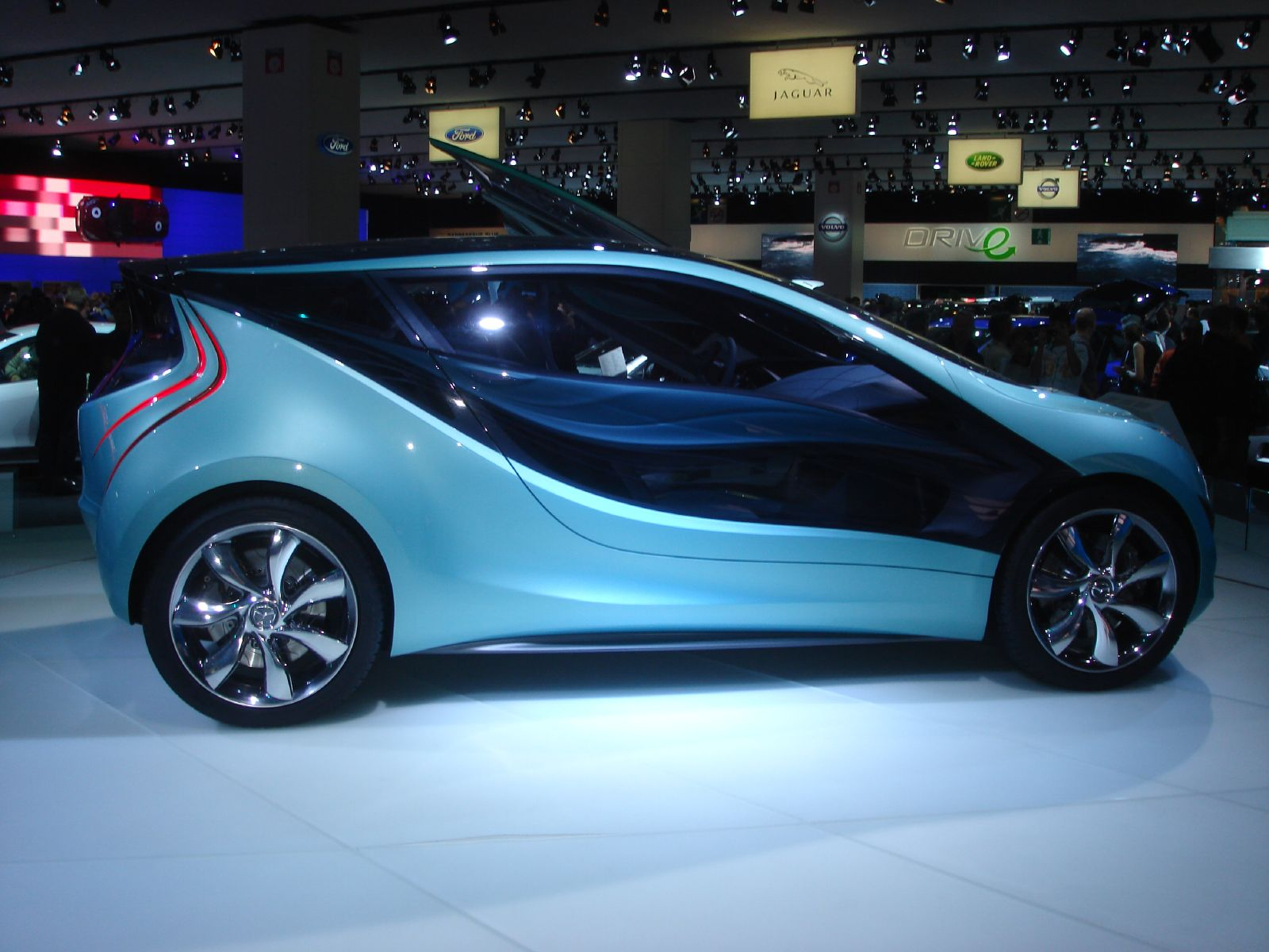 Mazda Kiyora at the Paris Auto Show in 2008.